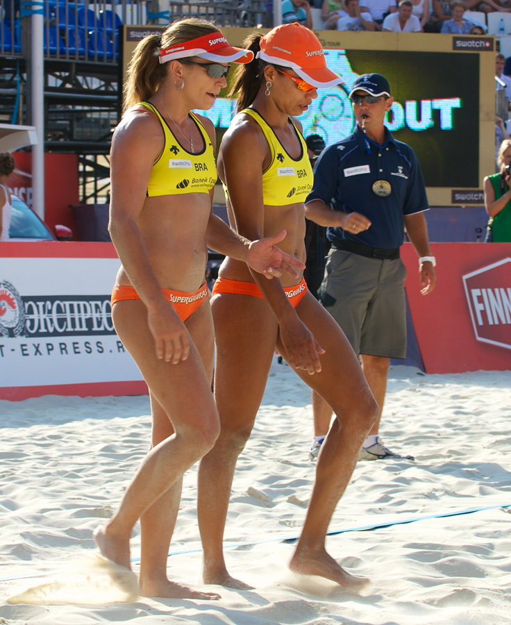 Grand Slam Moscow 2011